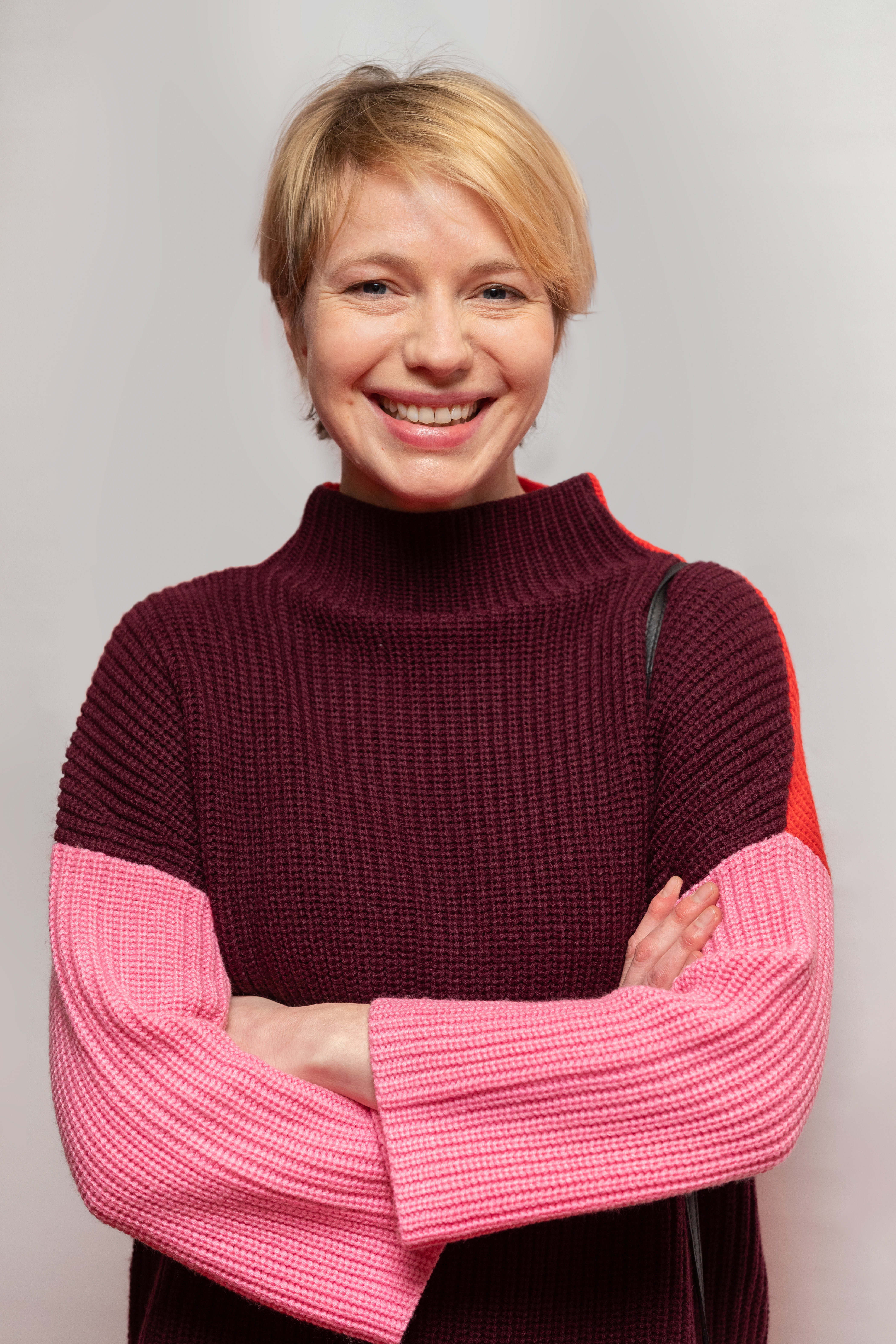 Anna Brüggemann at the arte reception of the 2019 Berlin Film Festival